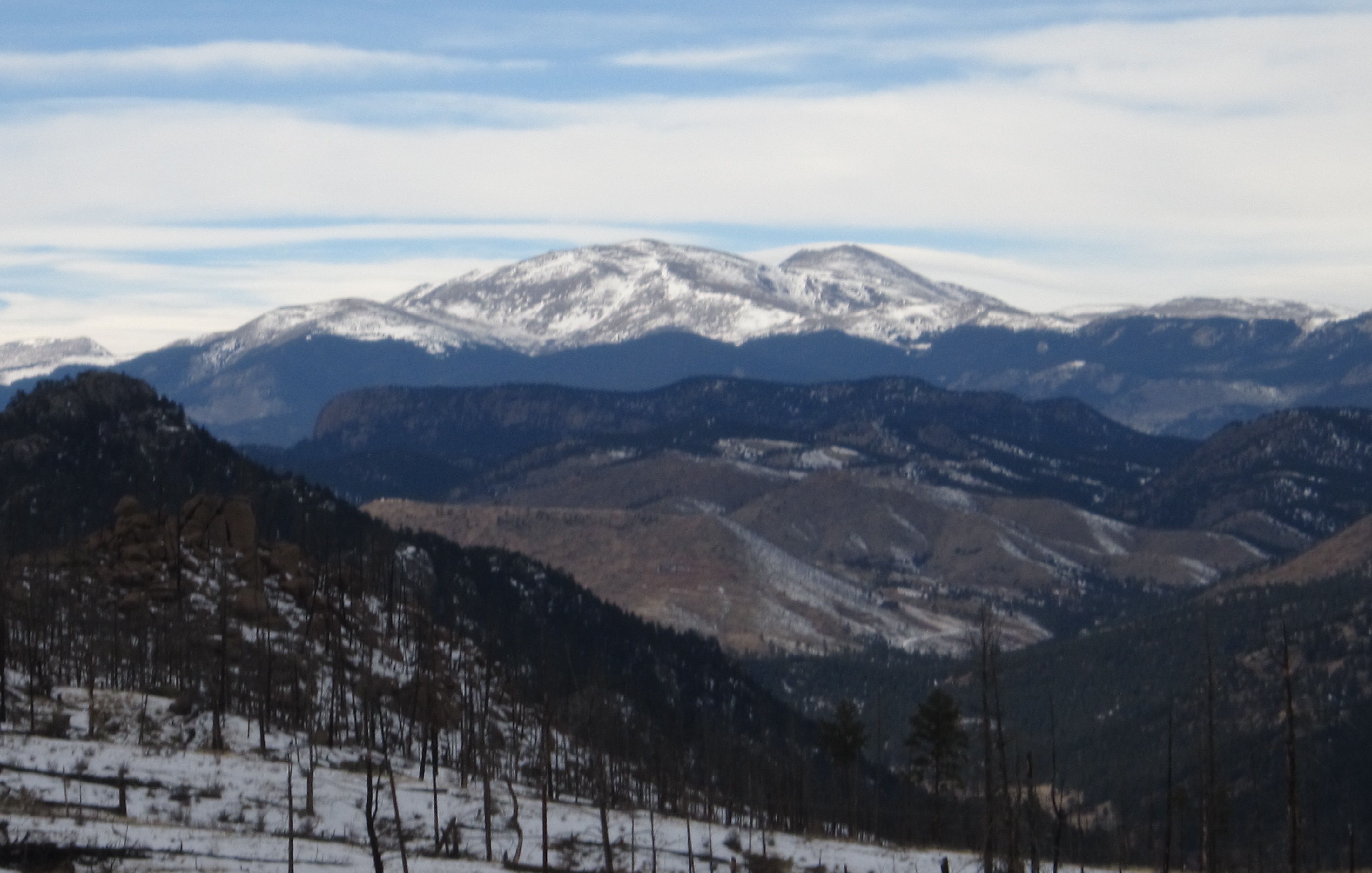 Mount Evans viewed from the south